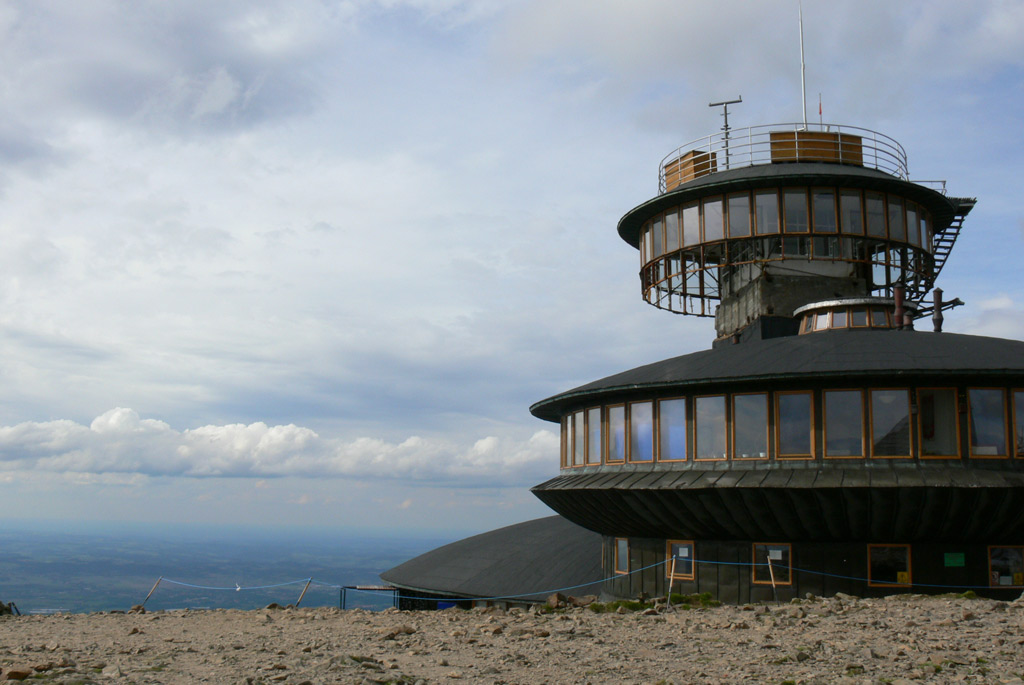 Sniezka observatory and restaurant overview. Damage to the upper disc can be seen.